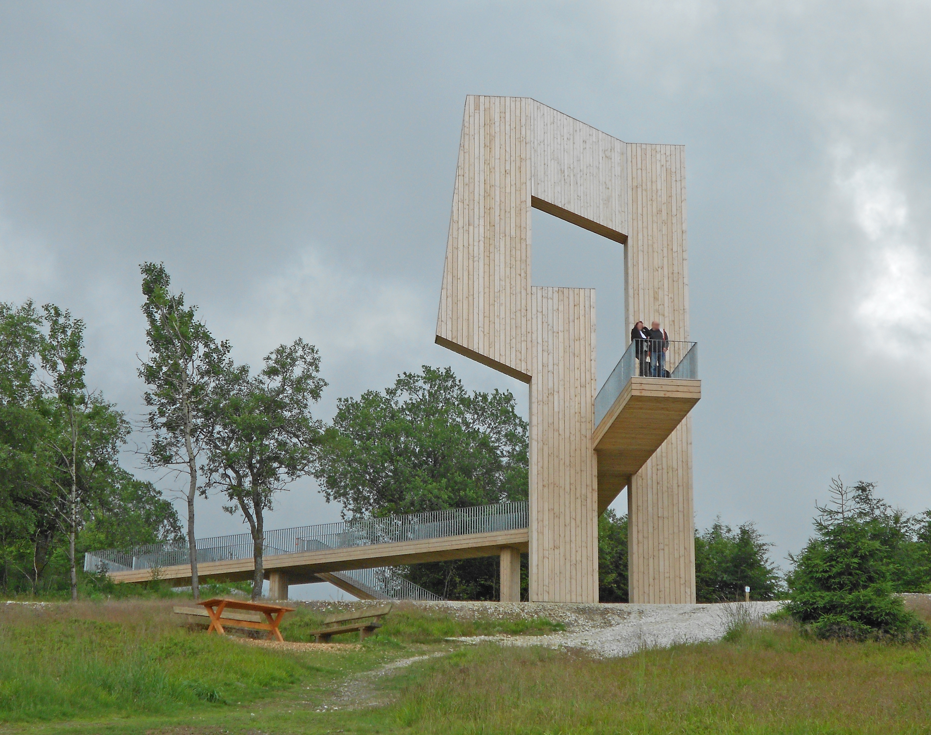 Christoph Mancke's sculpture Windklang on the Erbeskopf, the highest point of the German state of Rhineland-Palatinate in summer 2012.